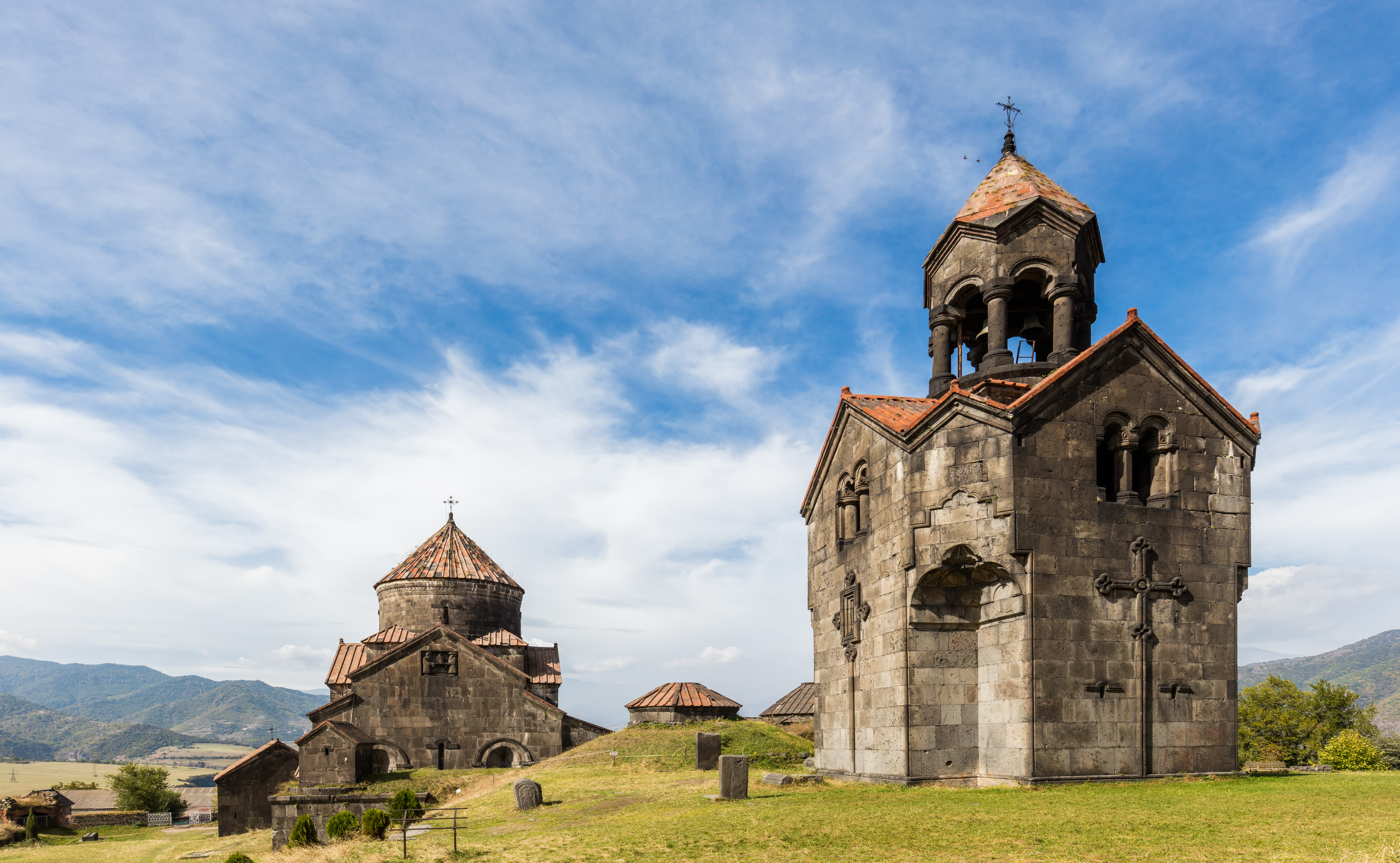 Haghpat Monastery, Armenia